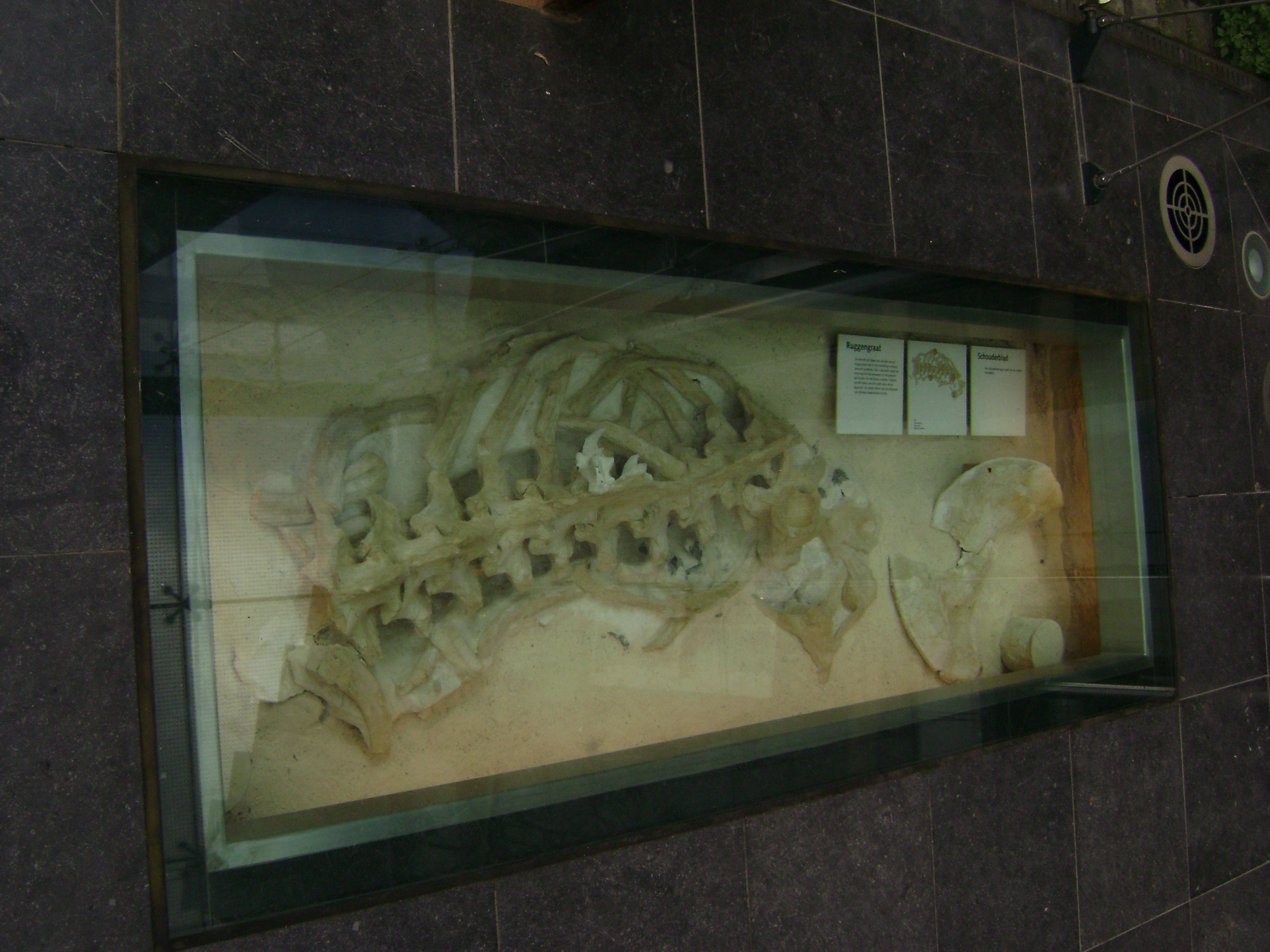 Torso of Prognathodon saturator displayed at the Natural History Museum of Maastricht